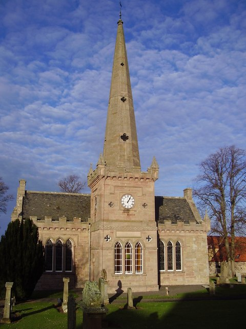 The Parish Church of Saltoun The present church was built in 1805 in the Gothic style and funded by John Fletcher Campbell in memory of his ancestors - the Fletchers of Saltoun. Perhaps the best known minister was Gilbert Burnett who went on to be Bishop of Salisbury. (Note the spire at Saltoun is reminiscent - in proportion - of the spire at Salisbury Cathedral.) The great Scottish politician, Andrew Fletcher is buried at Saltoun. For his great fight against the union with England, Andrew became known, in his lifetime and beyond, as 'The Patriot' There have been, at least, two other churches at Saltoun, dating back to the 12th century. The present kirk stands in the village of East Saltoun in the heart of the Parish.